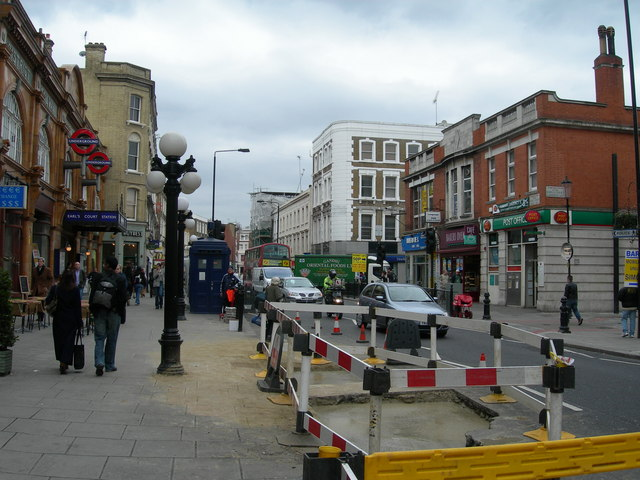 Earls Court Road SW5 Near the junction of Earls Court Gardens. The person on the motor scooter (centre shot)is a prospective taxi driver doing "The Knowledge".